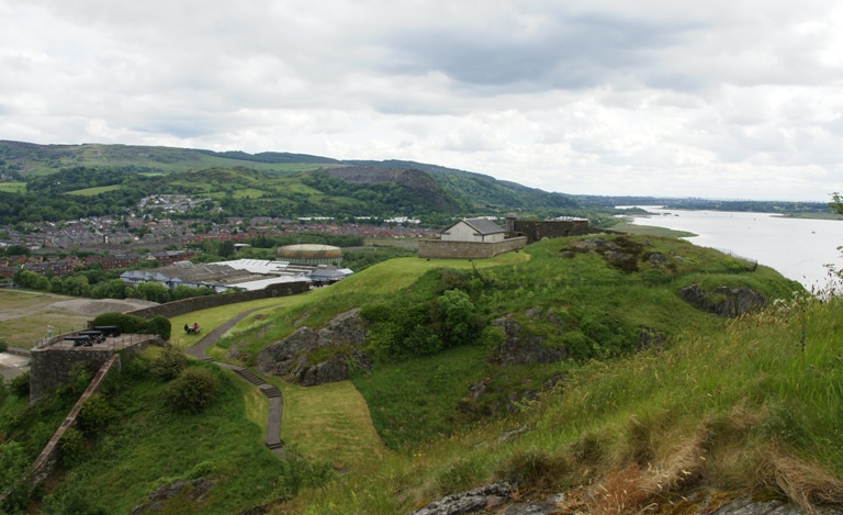 Dumbarton Castle, West Dunbartonshire, Scotland - The Beak